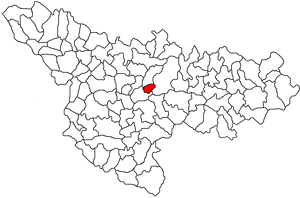 Locator map of the commune of Bucovăț, Timiș County, Romania